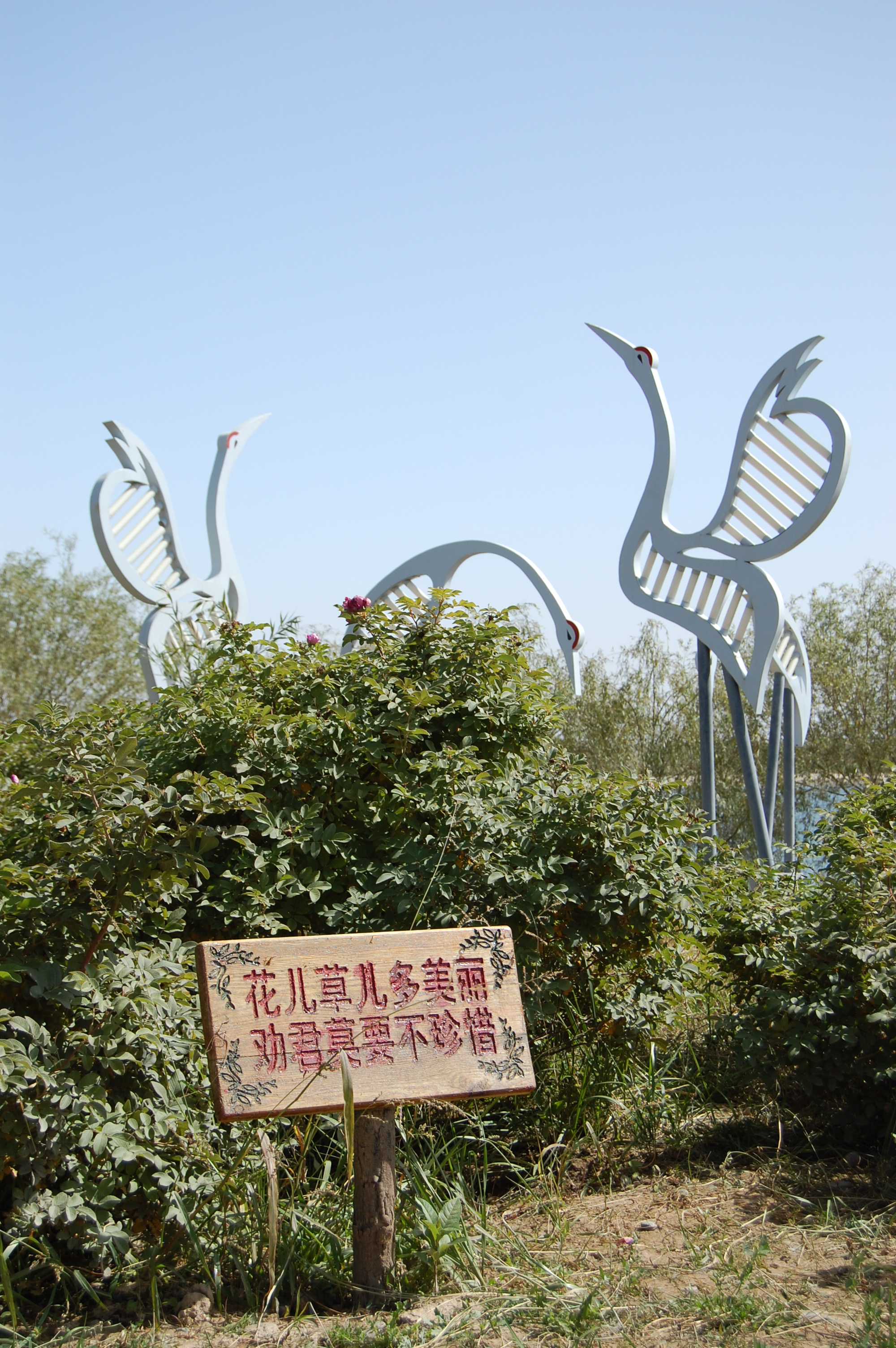 Grus grus in art in Jiayuguan (Gansu, China)